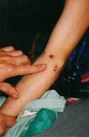 Akha, electrocuted by Thai army